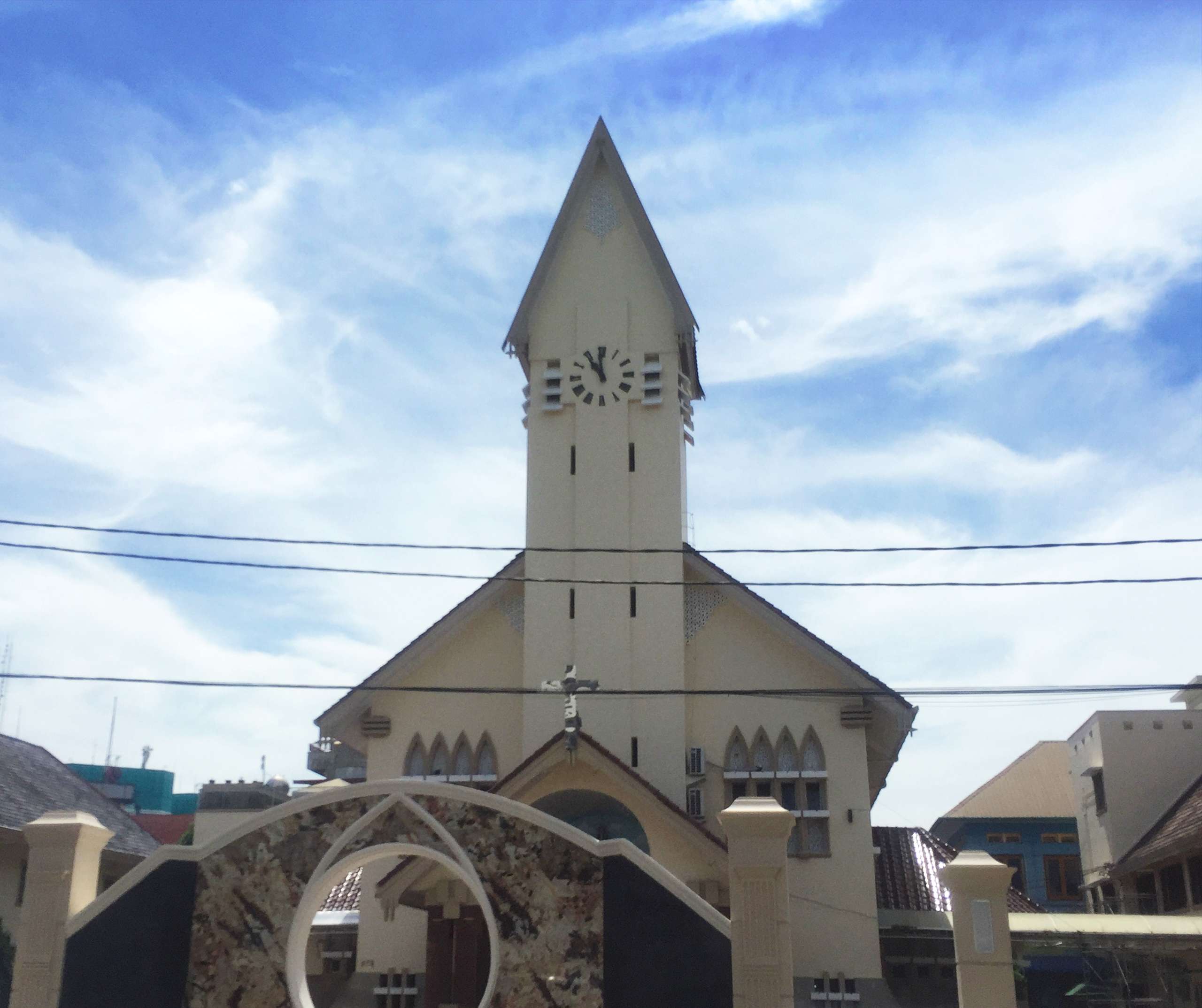 Medan Cathedral Catholic Church